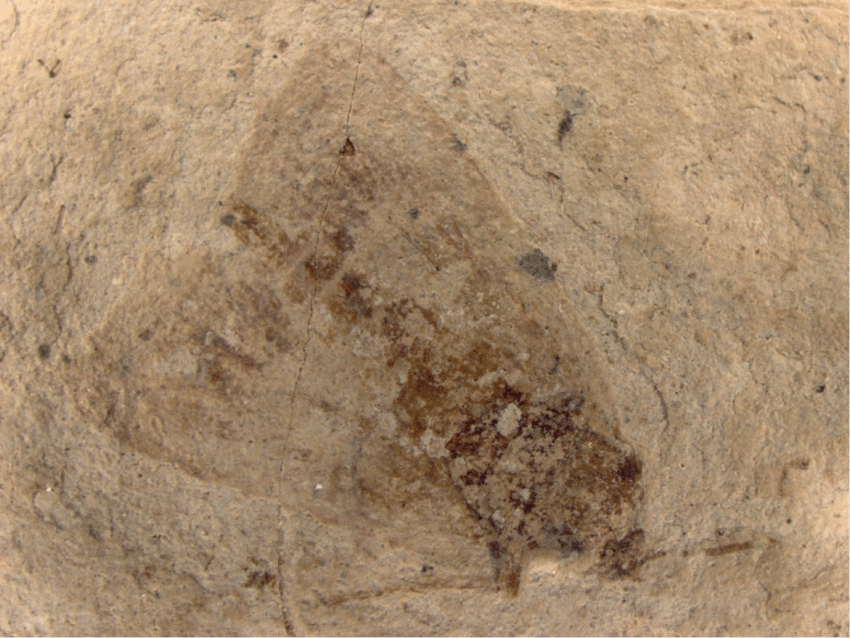 Paleolepidopterites destructus (Cockerell, 1916),USNM (HT: no. 61998). Compression fossil, Florissant Beds National Monument. Length of forewing 8.3 mm.